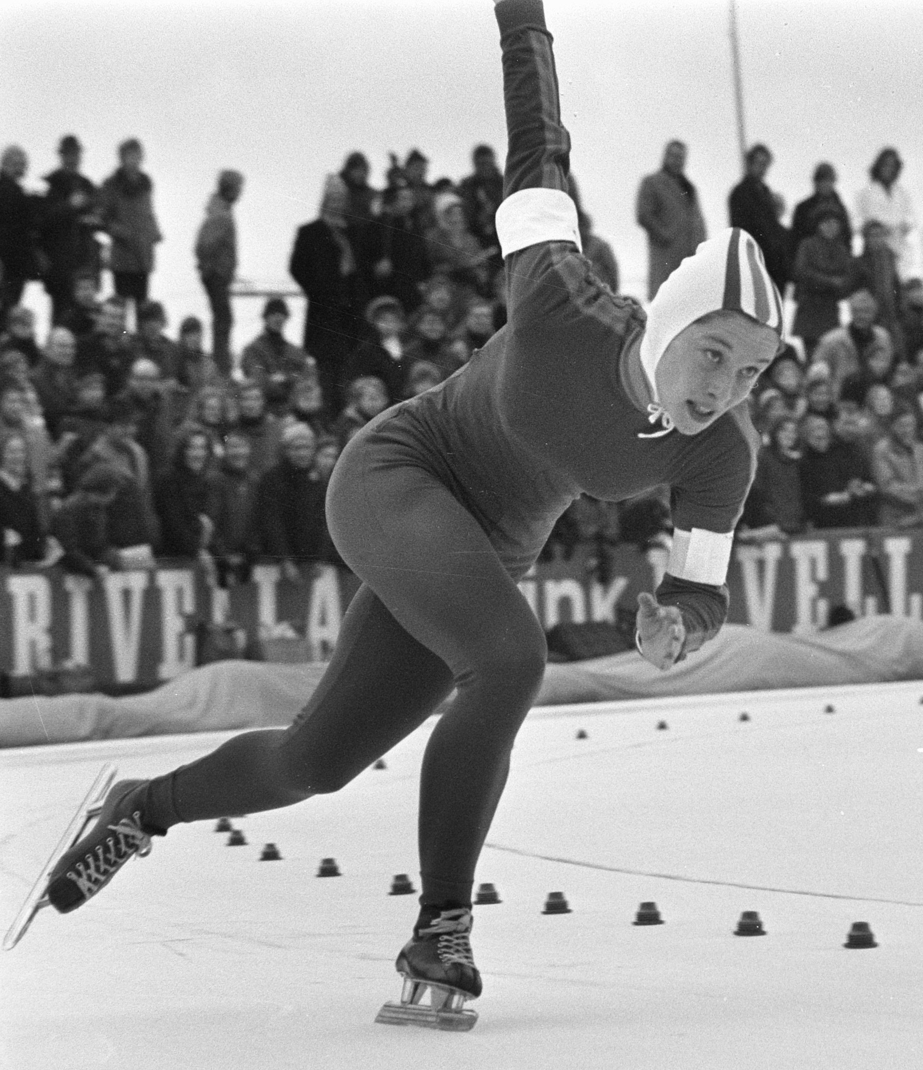 Wereldkampioenschappen schaatsen dames in Heerenveen; nr. Stien Baas Kaiser in actie